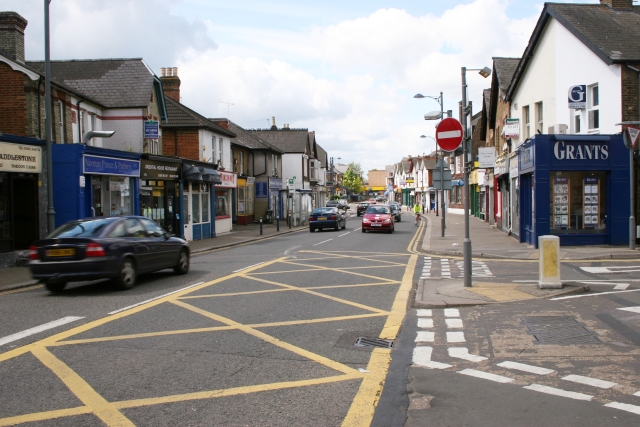 Addlestone. Looking southwest along the B3121 from near the station towards Addlestone's busy shopping area.